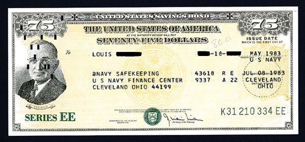 United States Savings Bond, Series EE, 1983, $75. Issued as a punched card, the holes encode the bond's serial number. Surname and SSN blacked out.